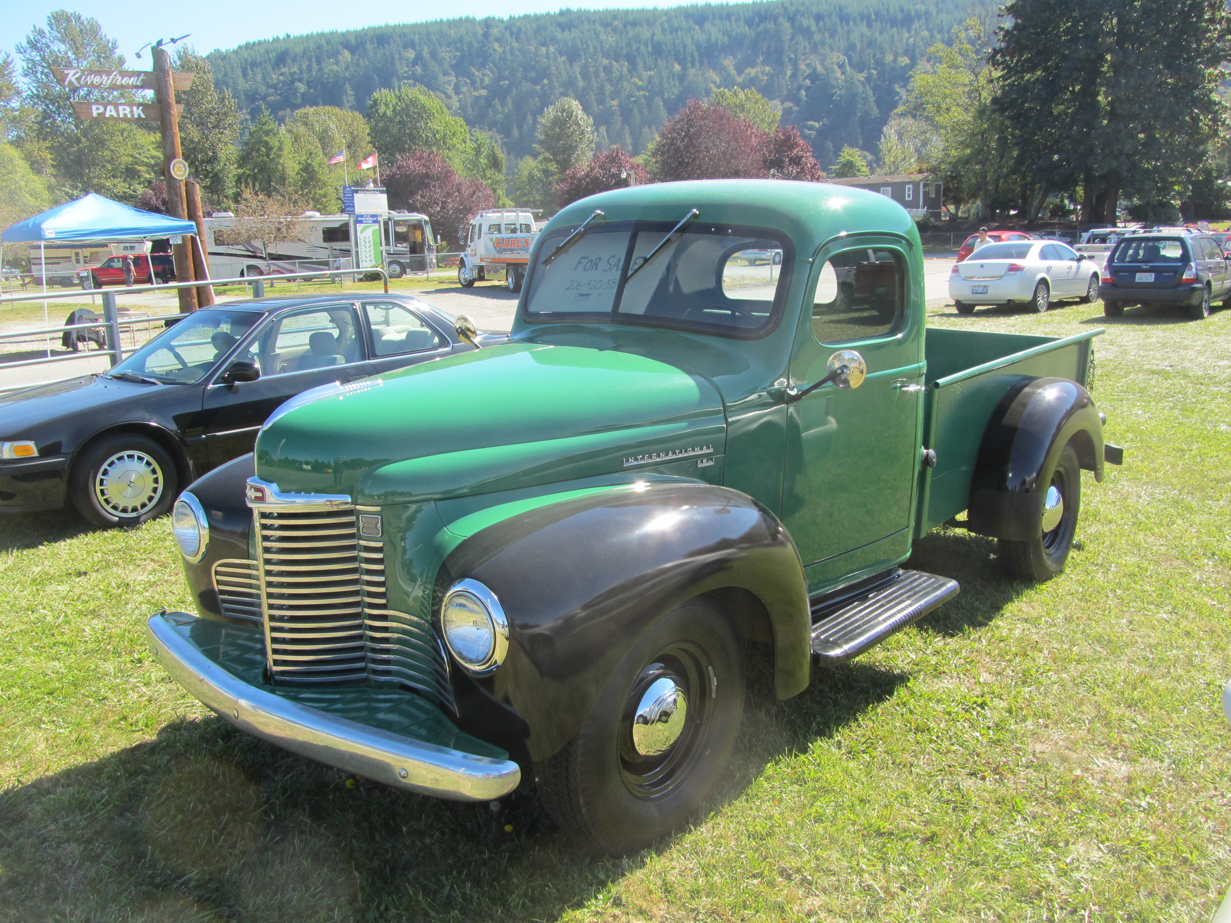 International KB-1 Sedro-Woolley, Washington, United States